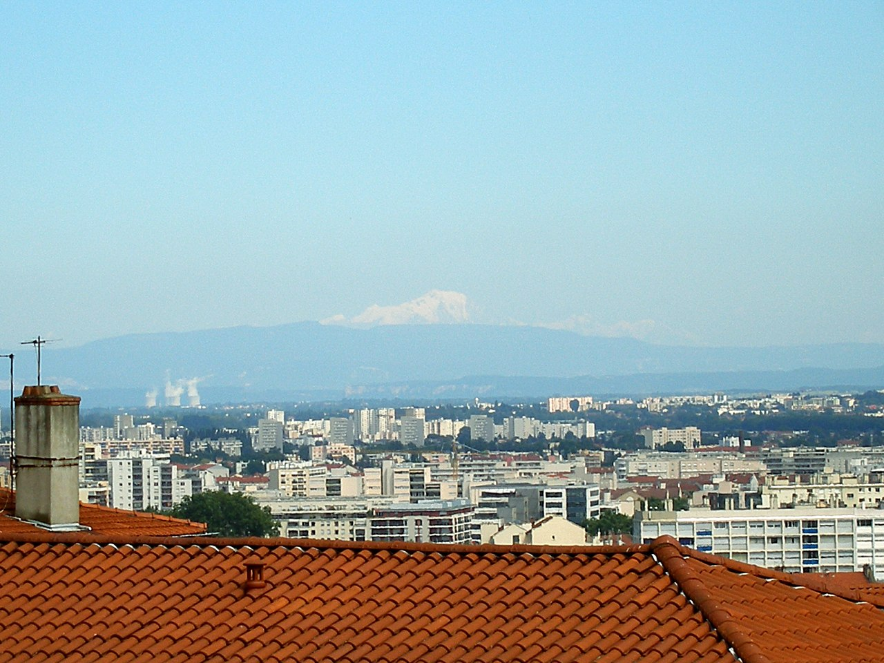 Picture of the Mont Blanc seen from Lyon, place Colbert (Croix-Rousse). Note that this means that it should also be possible to take a picture of the place Colbert as seen from the Mont Blanc.